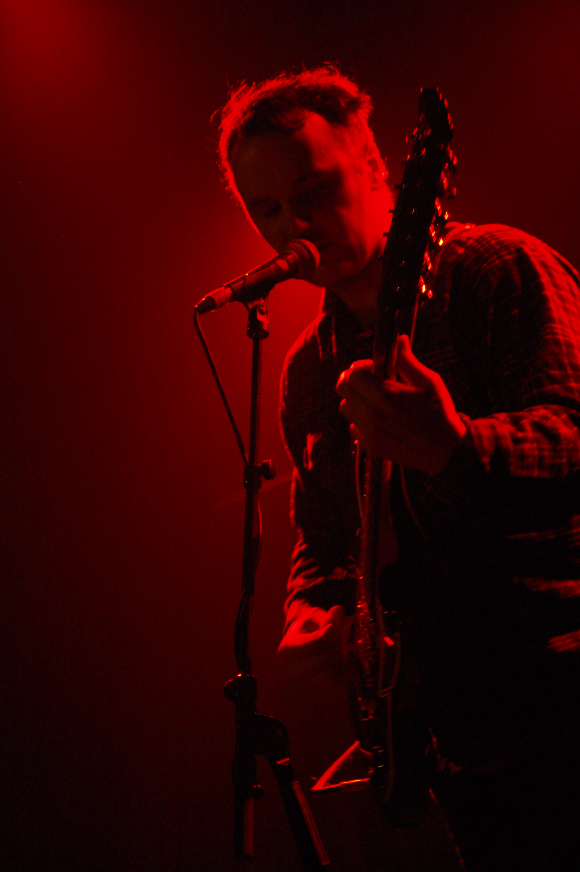 Phil Elverum performing as Mount Eerie alongside Earth and Ô Paon at Het Depot in Leuven, Belgium on March 14, 2012